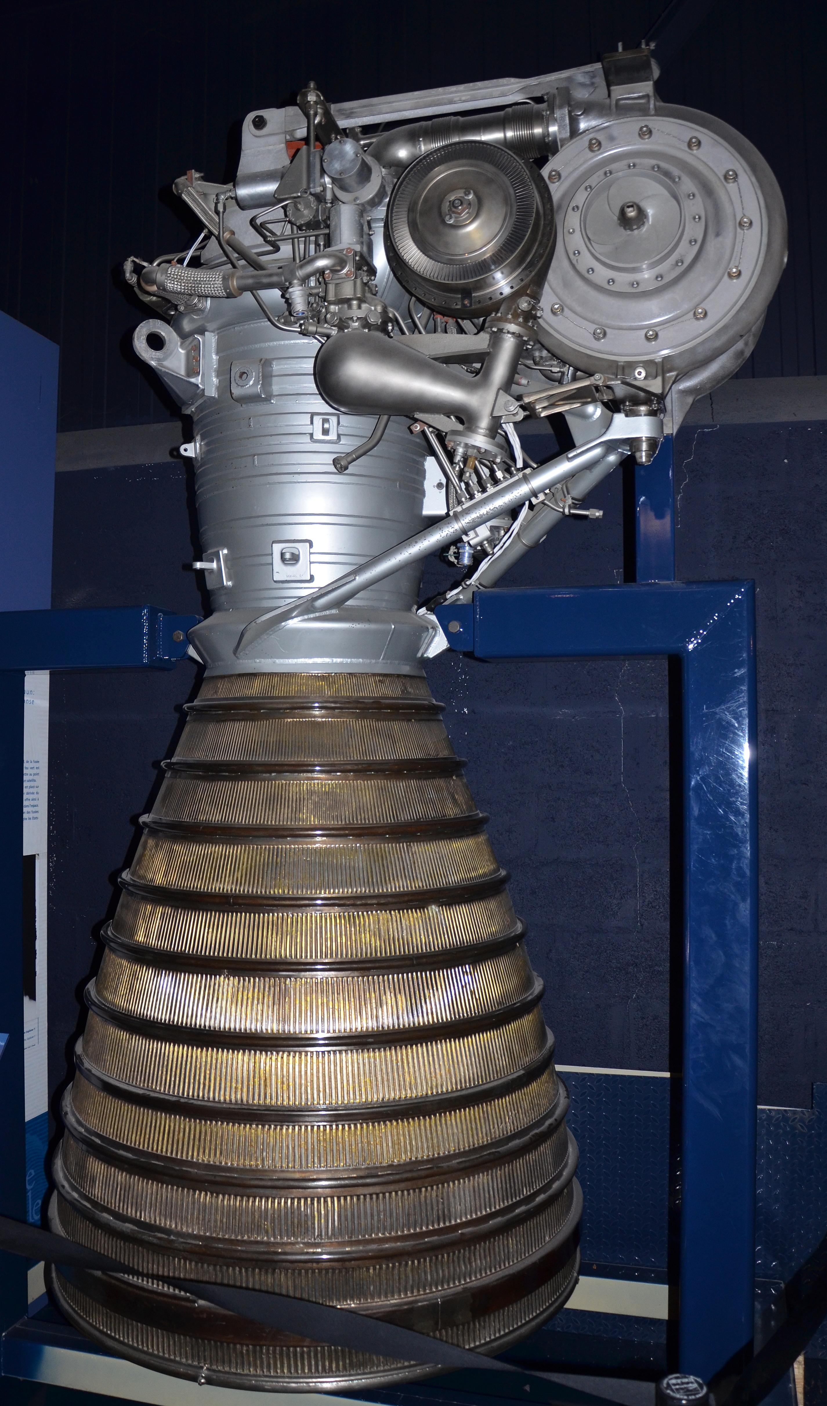 Rocket engine H-1, Museum of Air and Space Paris, Le Bourget (France)